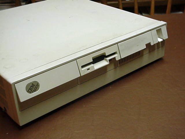 Front view of the IBM PS/2 Model 55 SX, with top cover in place.